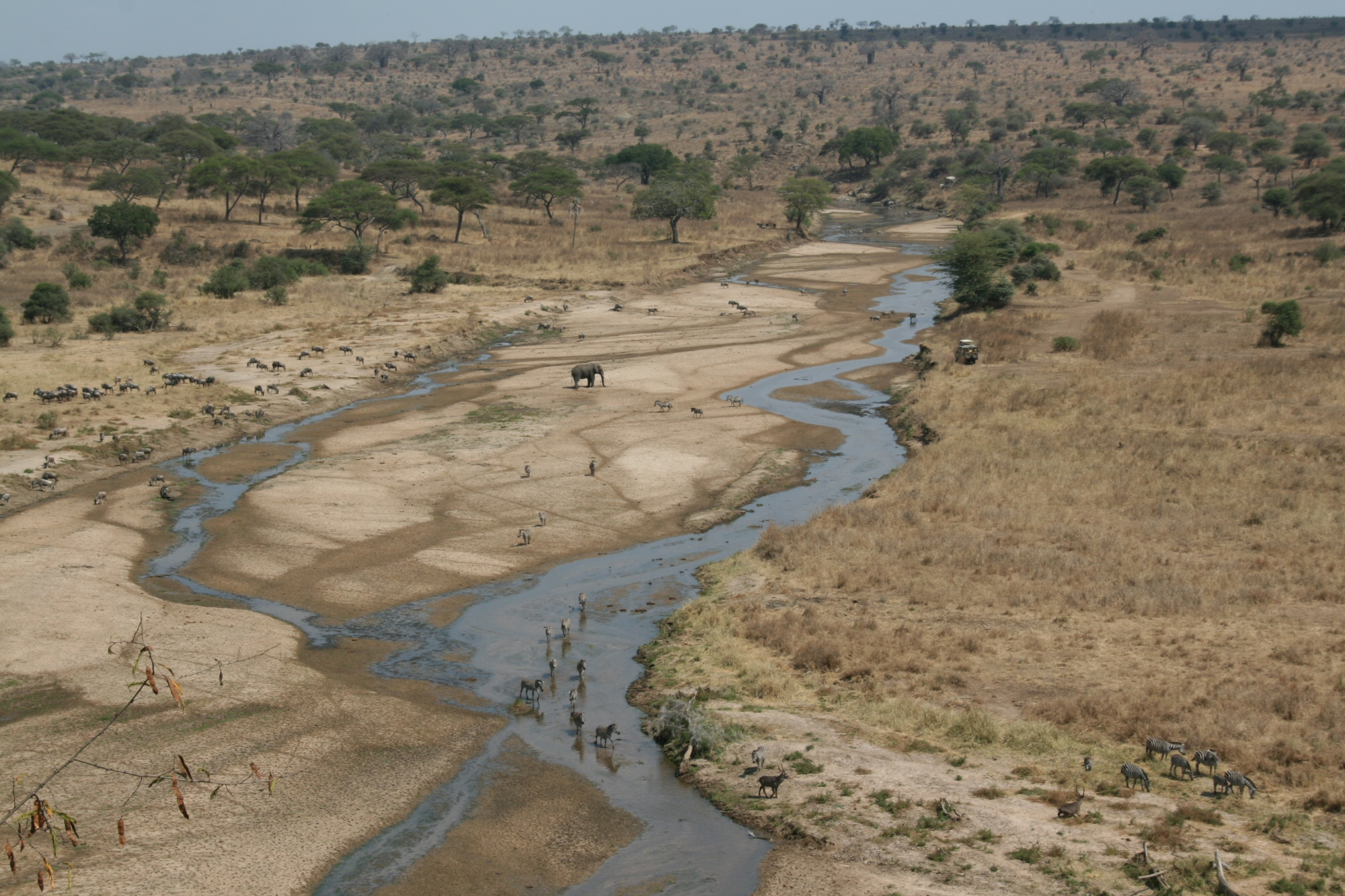 Tarangire river, Tarangire National Park, Tanzania.